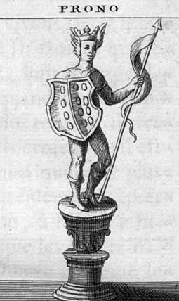 Prono